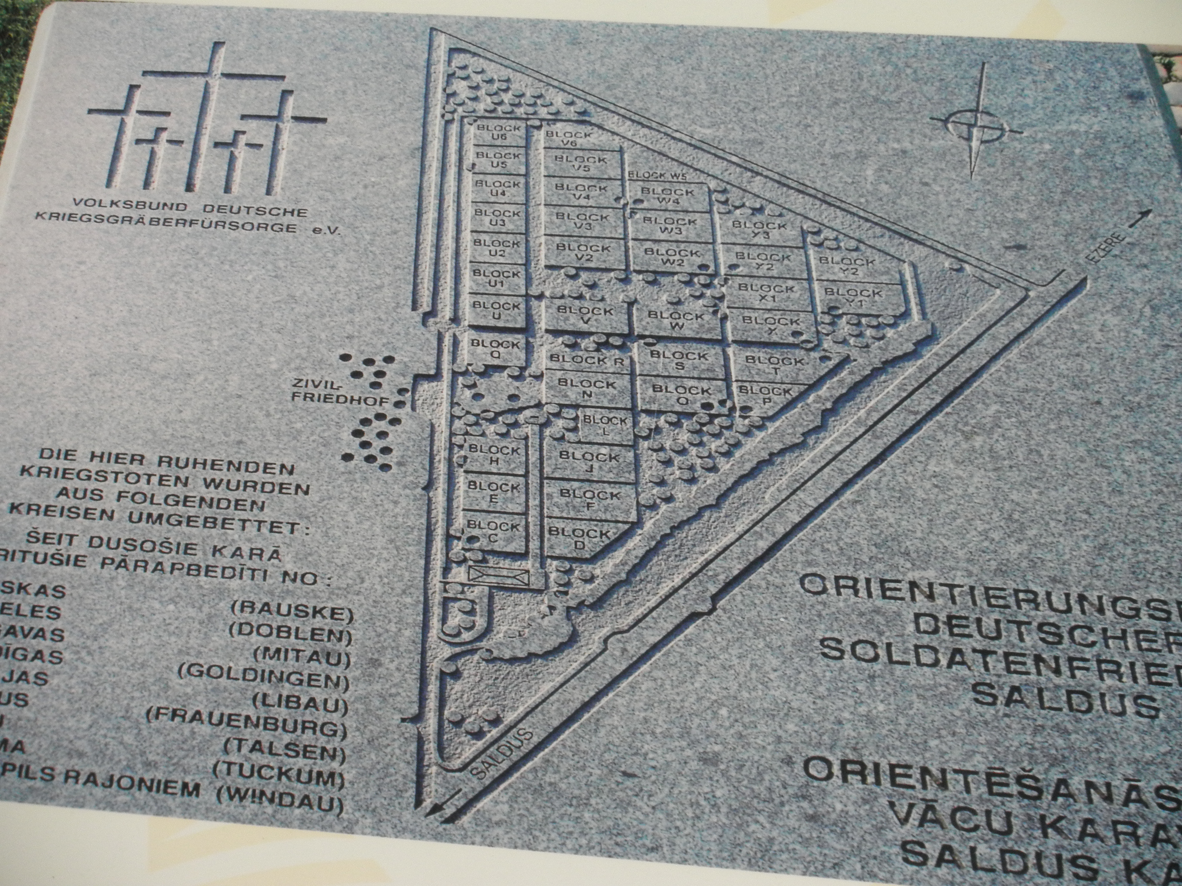 Soldiers Cemetery in Saldus in Latvia